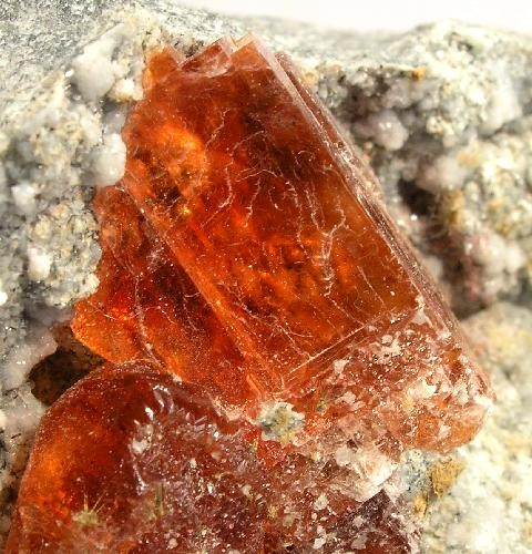 Villiaumite Locality: Aris Quarries (Ariskop Quarry; Railway Quarry), Aris, Windhoek, Windhoek District, Khomas Region, Namibia (Locality at ) Size: 9 x 5.4 x 5 cm. A pair of large (up to 2.5 cm) Villiaumite crystals nestled beautifully in a phonolite (a rare volcanic rock) pocket. The Villiaumites are gemmy and have an excellent, uniform orange color. The luster is also excellent. The crystal in the core of the pocket shows natural faces, no cleaves. Ex. Charlie Key Collection.